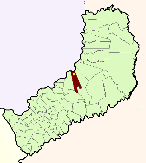 A map of El Alcázar's municipio in Misiones province, Argentina. The big point is El Alcázar town.